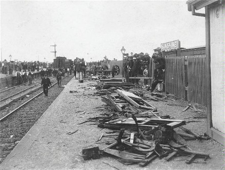 Wreckage strewn on Sunshine platform after Easter 1908 disaster